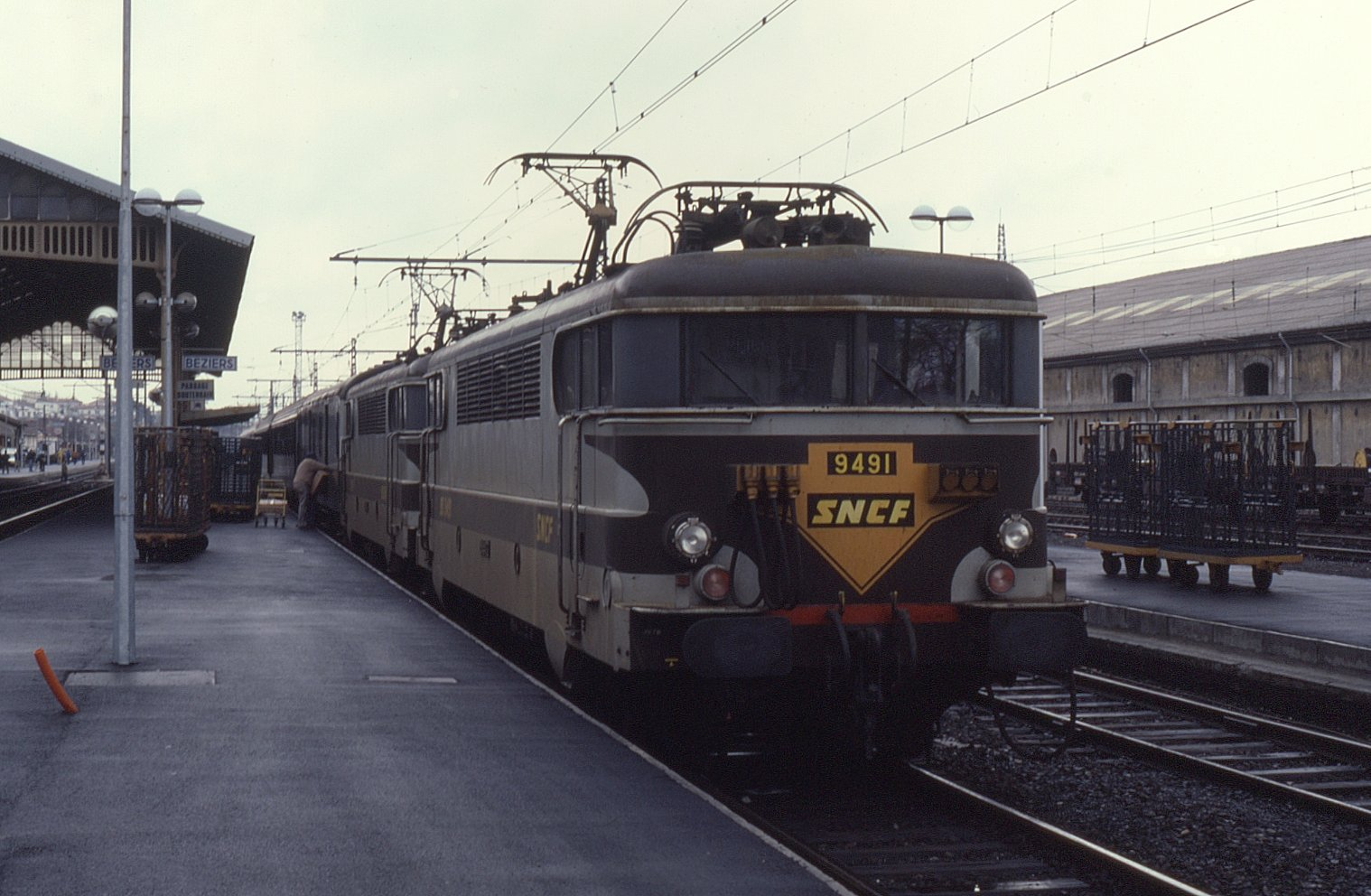 A pair of BB9400 electric locos in the distinctive livery unique to this class. They were reguar workers on the line from Neussargues to Béziers (Ligne des Causses) built by the Chemins de Fer du Midi. Electrified back in the 1930s being one of the oldest routes in France to see electric traction. Back at the time of this visit, the line still had through trains from Paris. Seen here on 9 April 1987, BB9491 and behind BB9489 have worked the 21:57 from Paris Lyon to Béziers having worked from Neussargues. A journey of well over 12 hours through some spectacular scenery. The line lost through trains some years ago and due to poor infrastructure has seen many sections closed for long periods and trains replaced by buses.